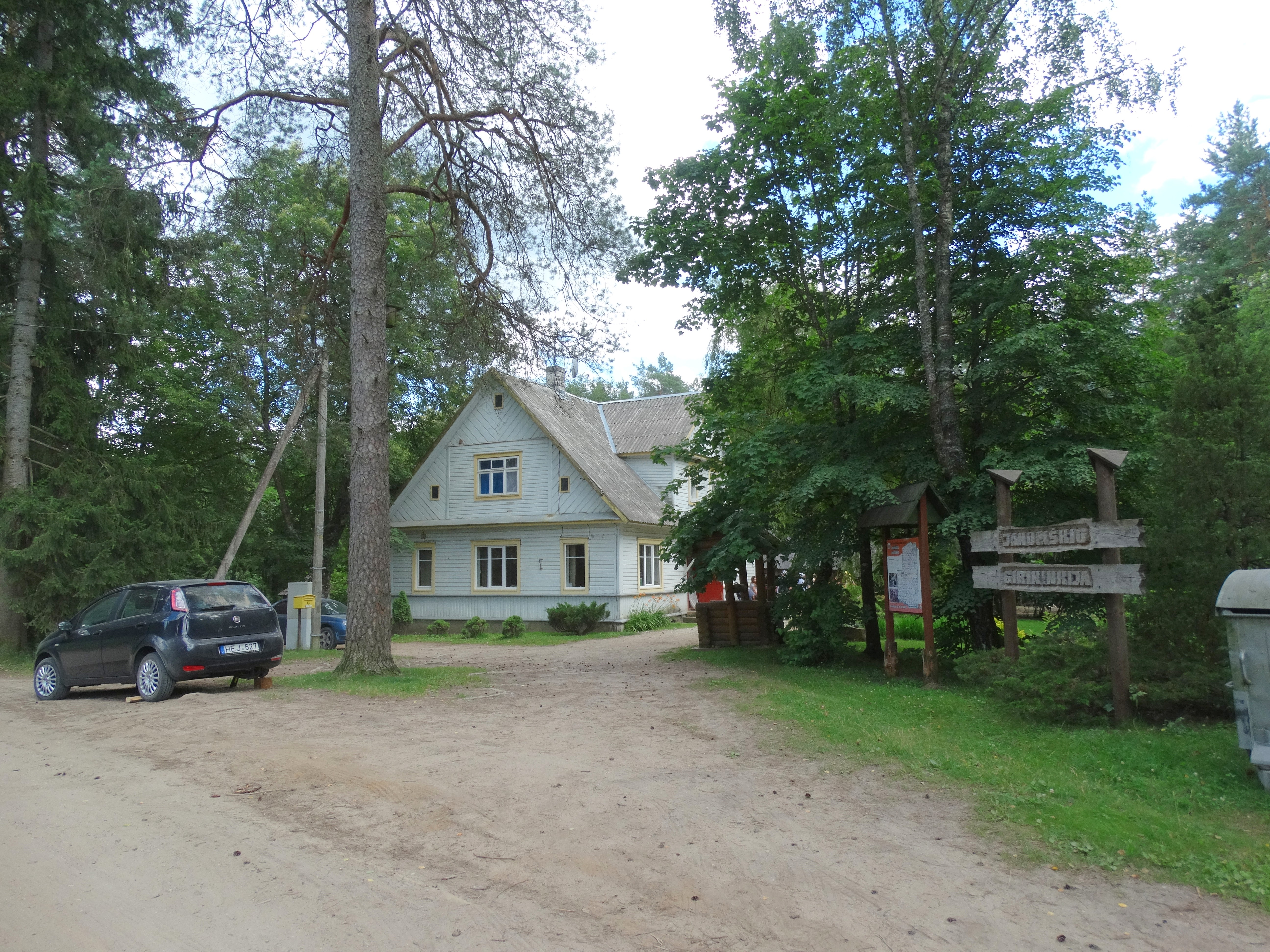 Januliškis, Švenčionys District, Lithuania